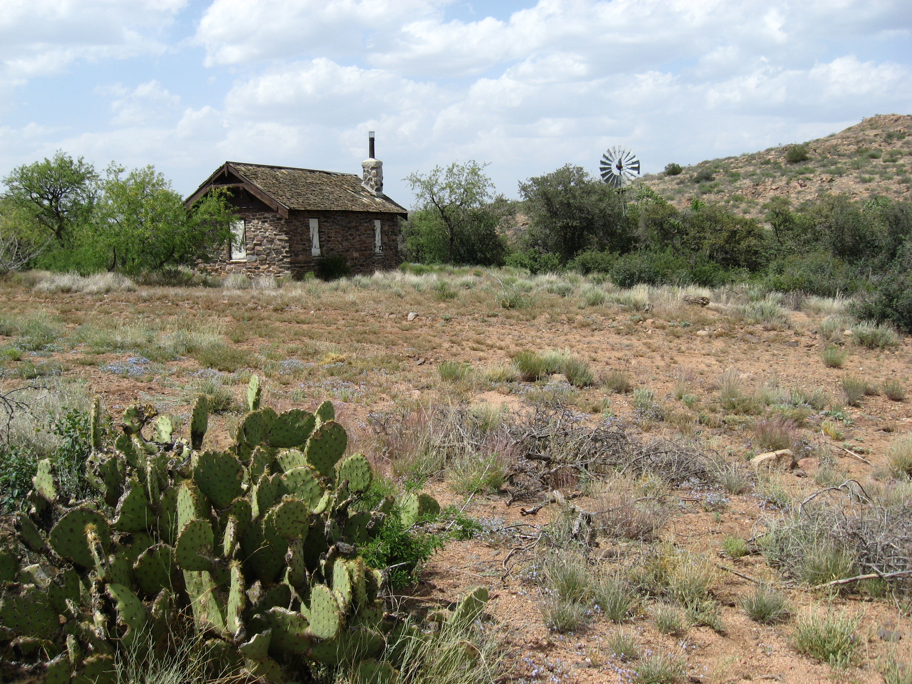 Copper Creek ranger station / Copper Creek Guard Station Object location34° 12′ 51″ N, 111° 58′ 40″ W